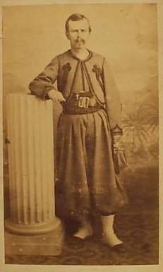 Auguste Guillet de La Brosse